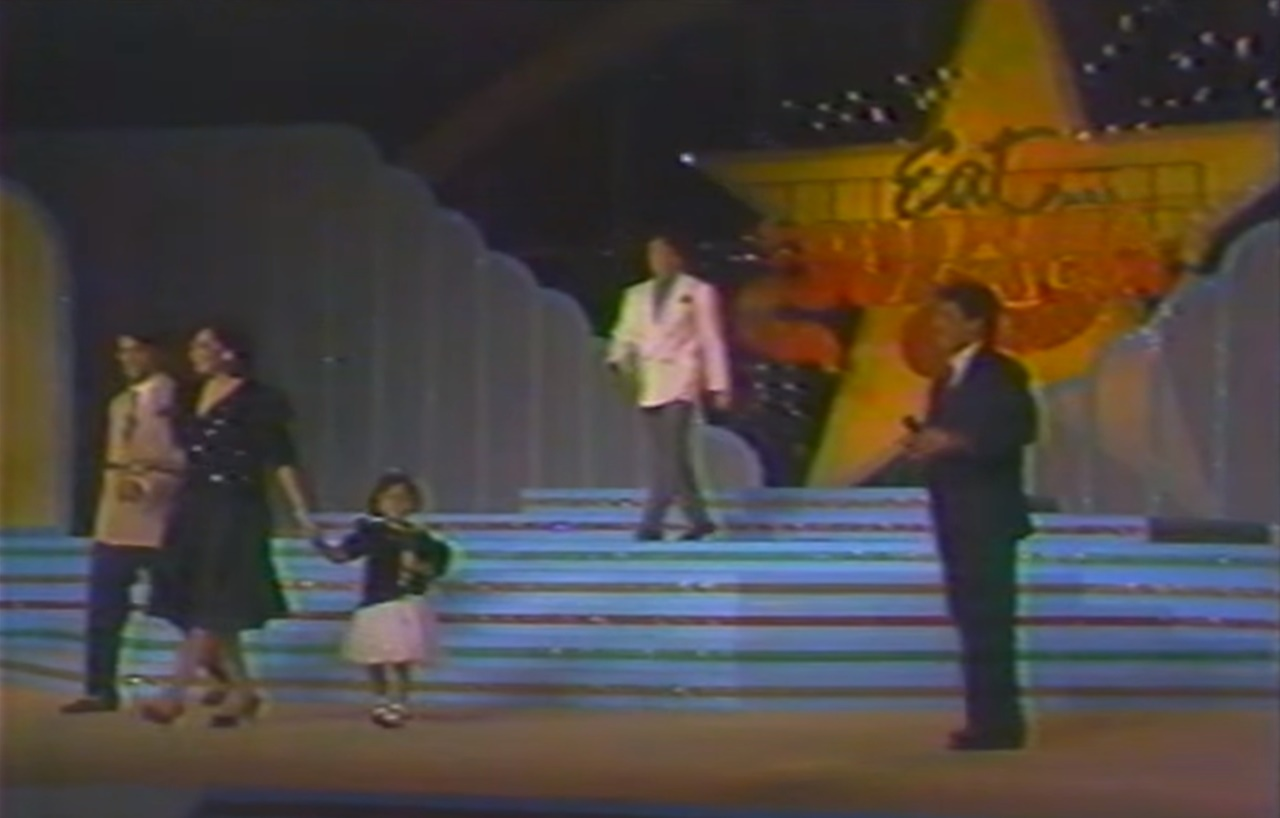 Main hosts of Eat... Bulaga (L-R) Vic Sotto, Coney Reyes, Aiza Seguerra, Joey de Leon and Tito Sotto descending the stage on the TV special Eat... Bulaga!: Moving On